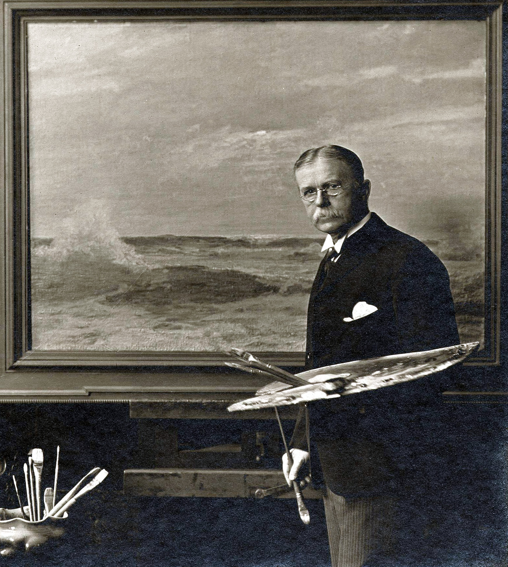 Howard Russell Butler: Portrait of Butler at an easel with palette and brushes in hand. Inscribed on lower right: "Howard Russell Butler". Butler, Howard Russell, 1856-1934 Creator/Photographer: Unidentified photographer Medium: Black and white photographic print Dimensions: 13 cm x 13 cm Date: c. 1920 Persistent URL: Repository: Archives of American Art Native nameArchives of American ArtParent institutionSmithsonian InstitutionLocationWashington, D.C.Coordinates38° 53′ 52.44″ N, 77° 01′ 21.72″ W Established1954Web page control : Q2860568 VIAF: 151134814 ISNI: 0000 0001 2185 0758 LCCN: n79065944 NLA: 35007823 GND: 1023549-8 WorldCat institution QS:P195,Q2860568 Collection: Macbeth Gallery Records, c. 1890-1964 Accession number: aaa_macbgall_4641